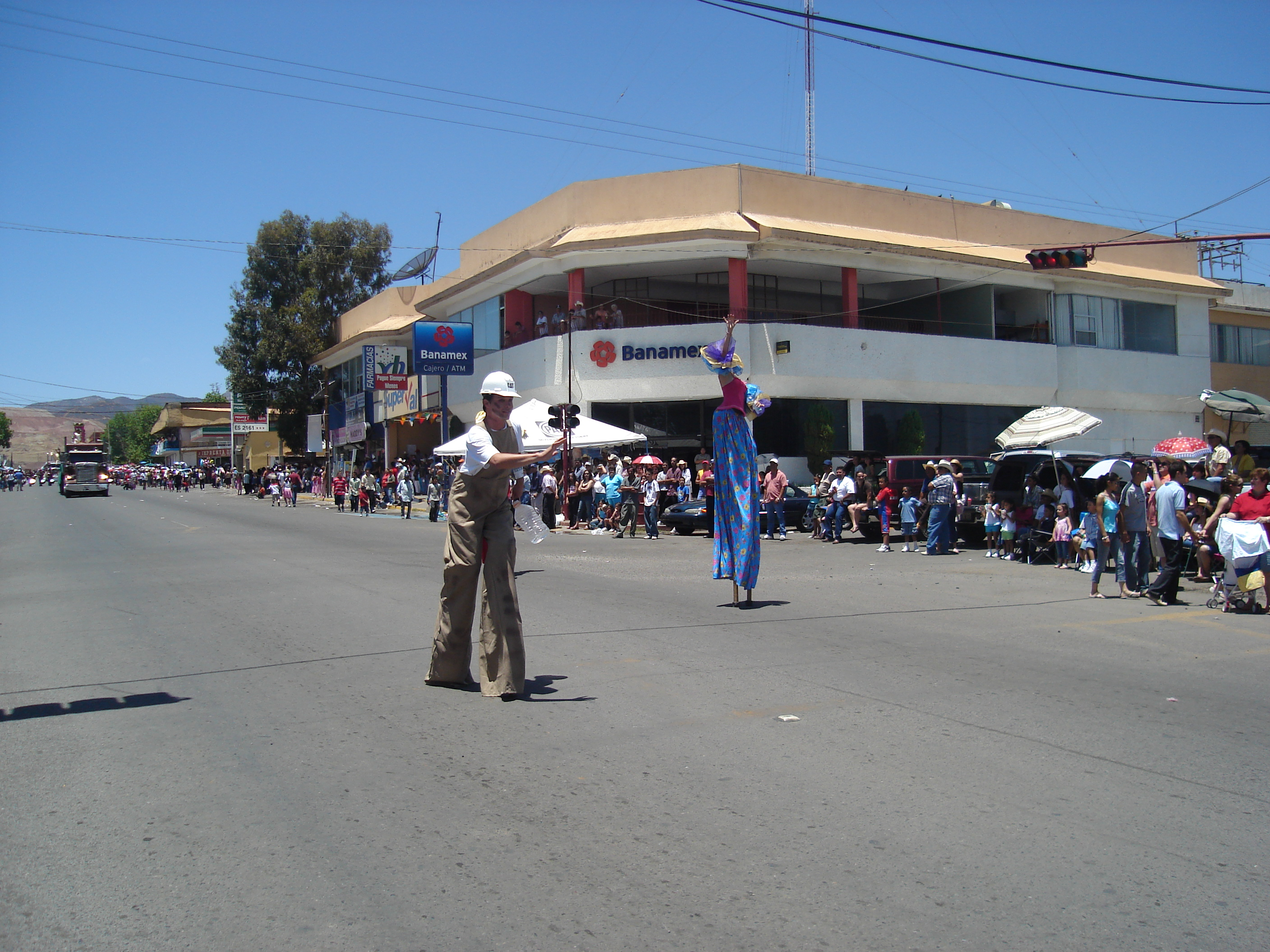 Desfile en cananea